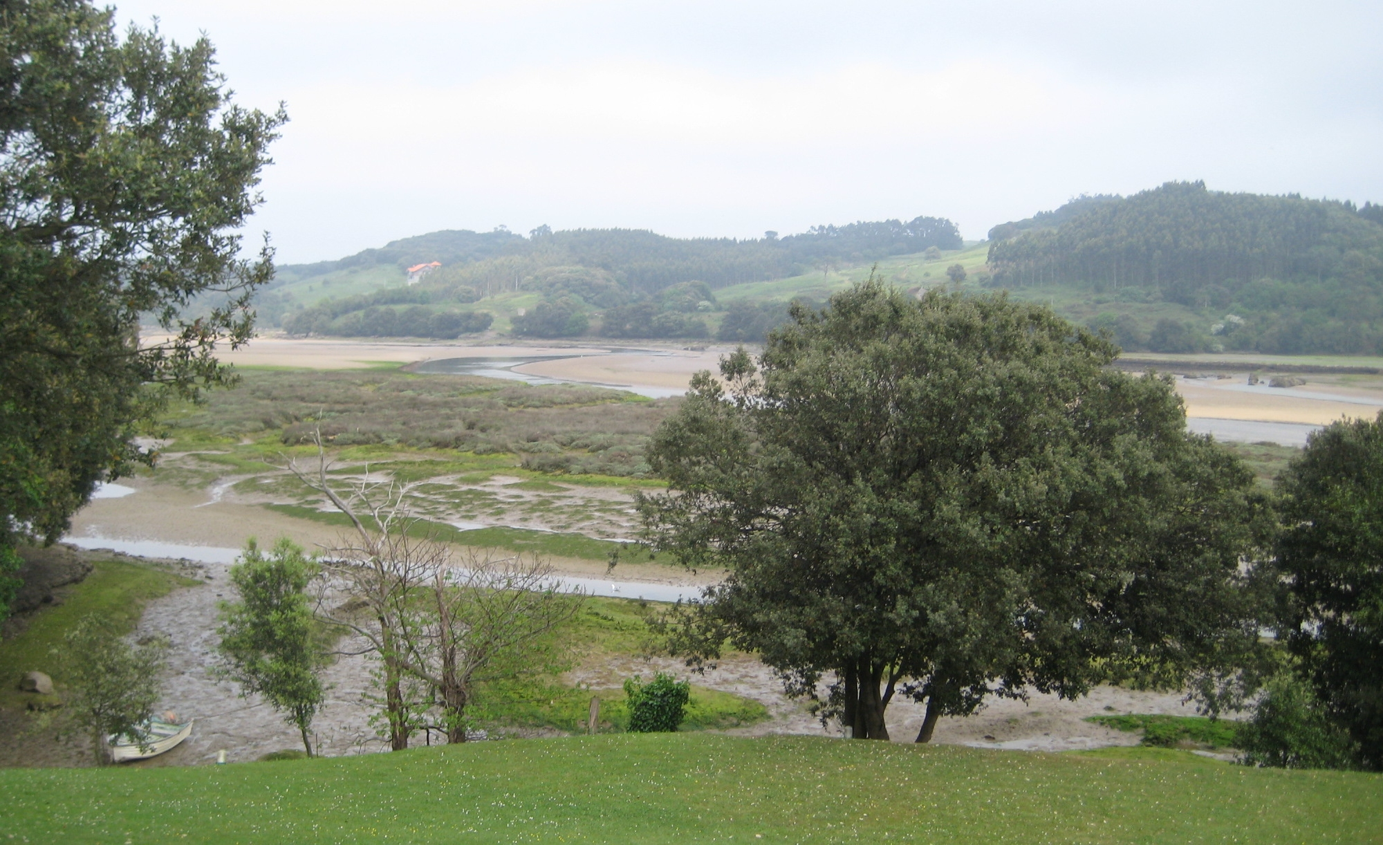 Ría of Ajo, near Convento, Bareyo, Cantabria.